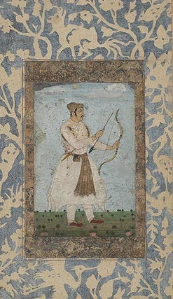 Folio from an Album: Prince Daniyal with Bow and Arrow